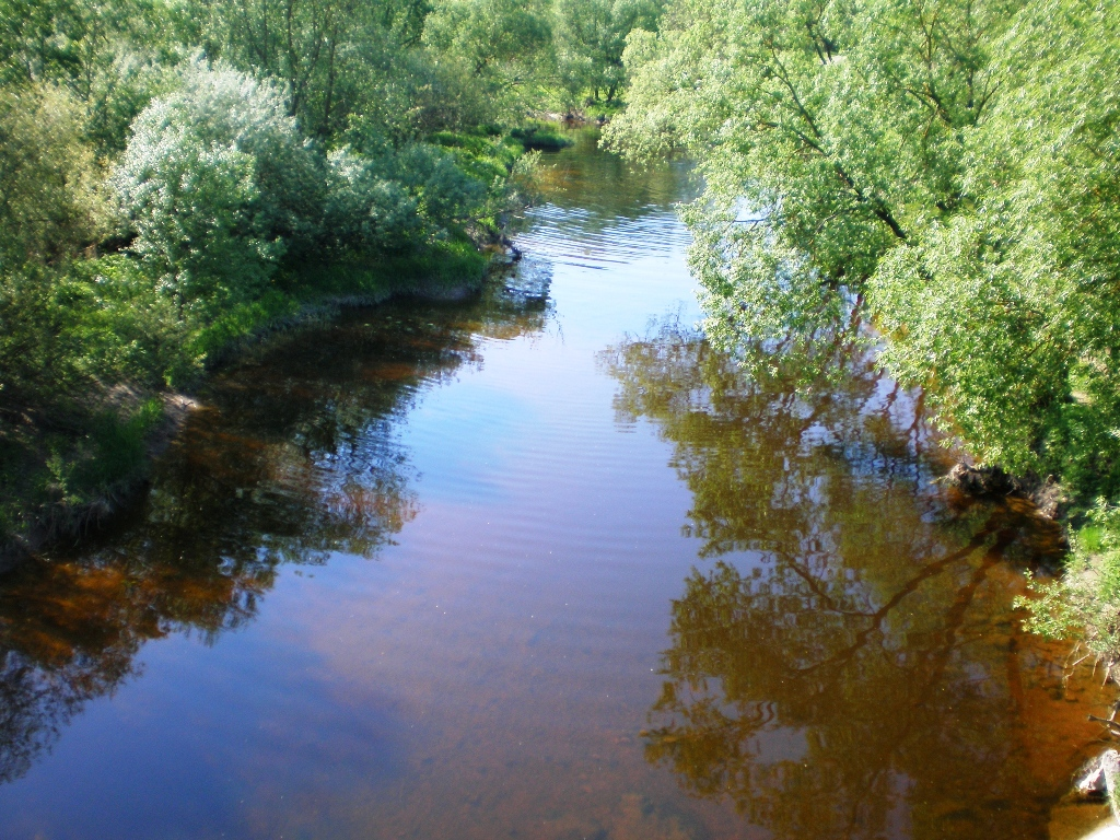 Šušvė river by Josvainiai